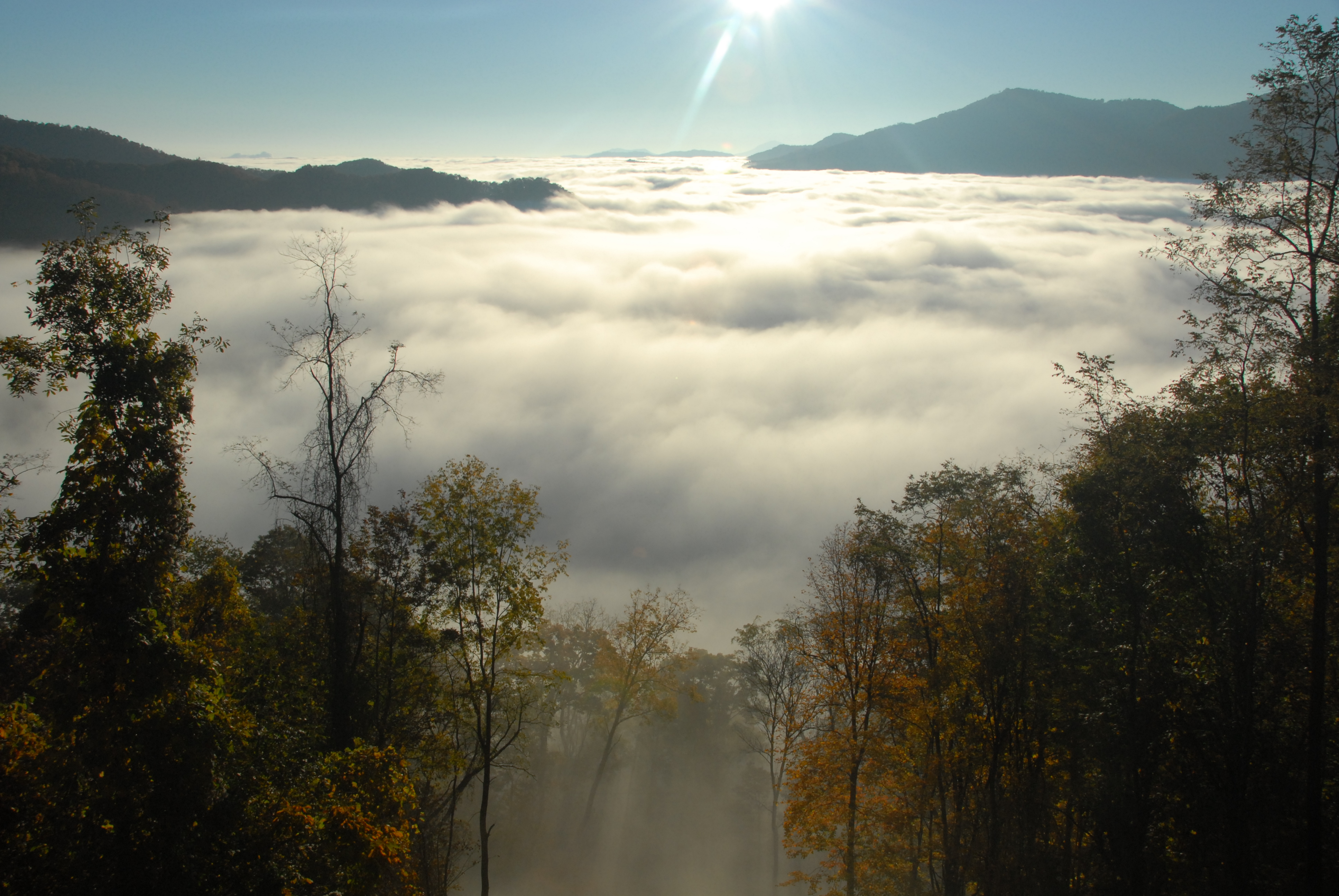 Photo taken from Rich Cove road going up to Ghost town in the Sky around October 2006. Photo by Dean Teaster